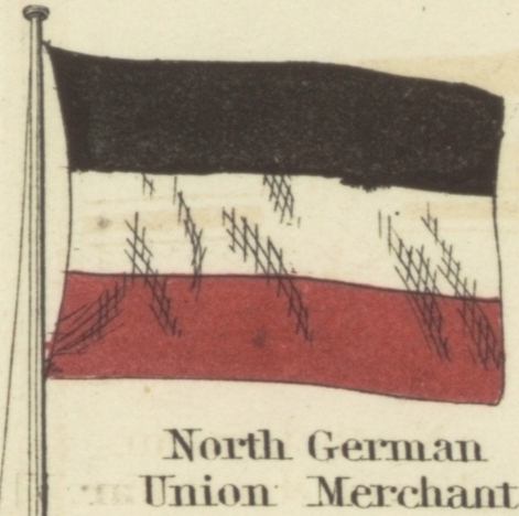 North German Union Merchant. Johnson's new chart of national emblems, 1868.jpg Johnson's new chart of national emblems. Print showing the flags of various countries, those flown by ships, and the "Signals for Pilots." In the top left corner is the "United States" 37-star flag, in the top right corner is the "Royal Standard of the United Kingdom Great Britain & Ireland"; in the bottom left corner is the "Russian Standard" and in the bottom right corner is the "French Standard." The flags on this sheet differ slightly from those on another sheet numbered 4 [top left] and 5 [top right].